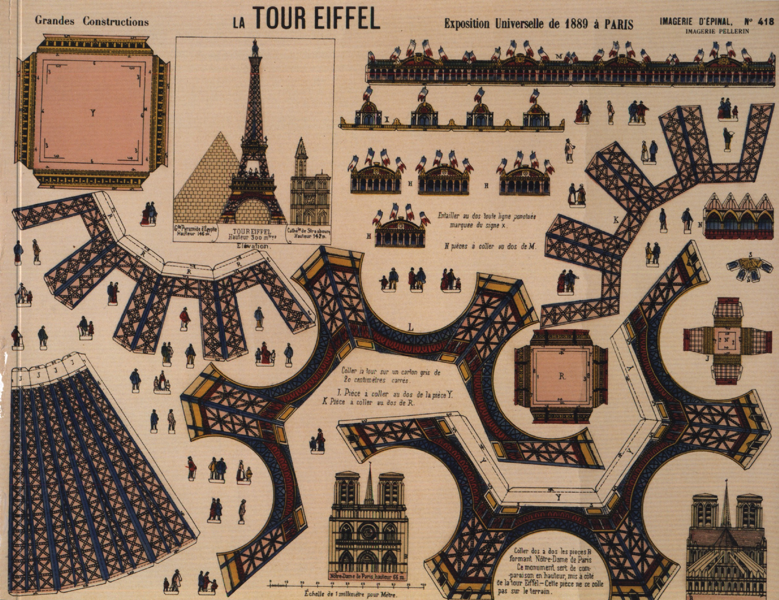 The Eiffel Tower, 1889 Universal Exposition in Paris, Imagerie d'Epinal print No.418